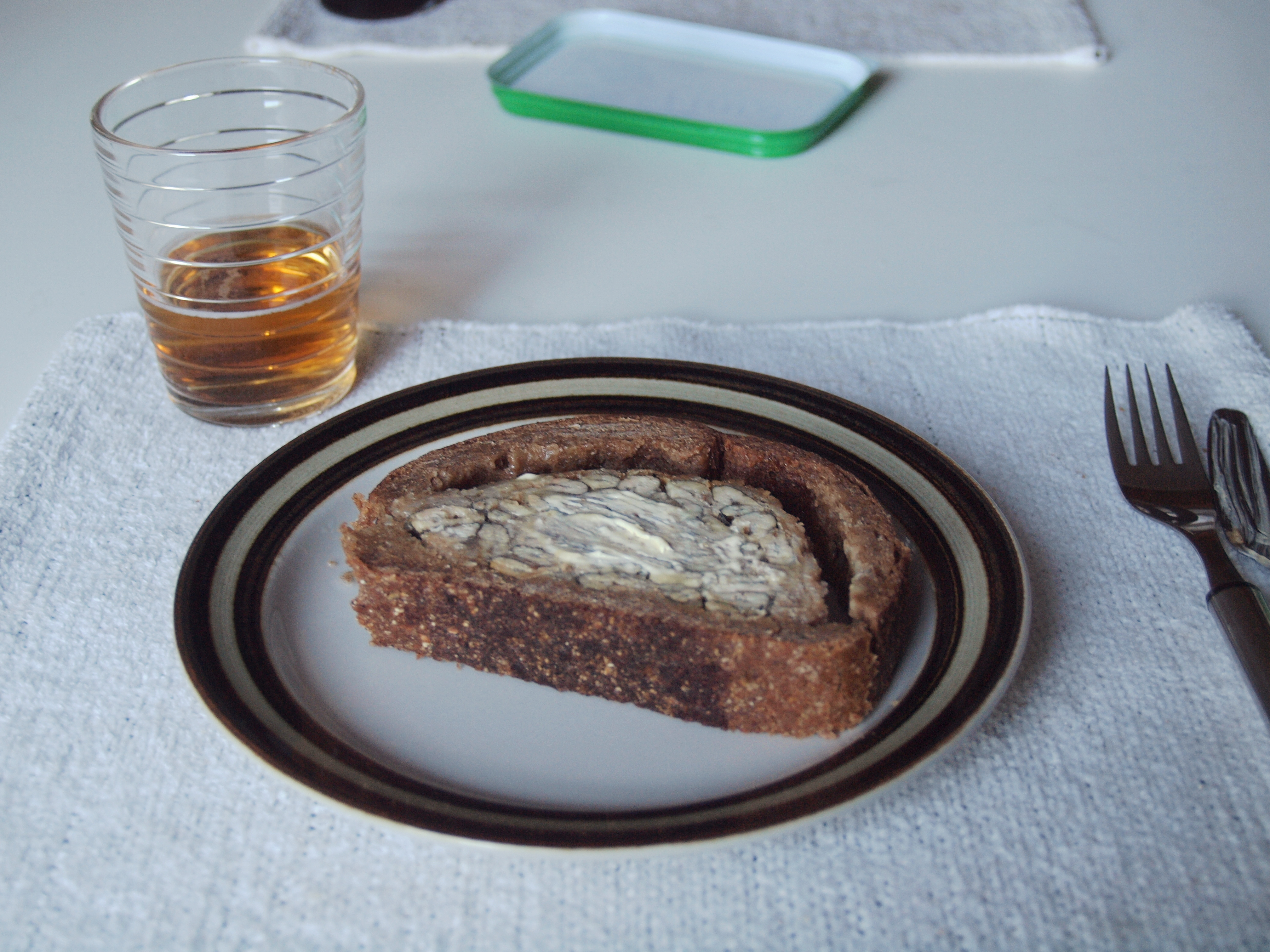 A slice of authentic kalakukko from Savonia, Finland and a glass of Finnish lager beer, served as an evening snack at a private apartment in Helsinki, Finland.